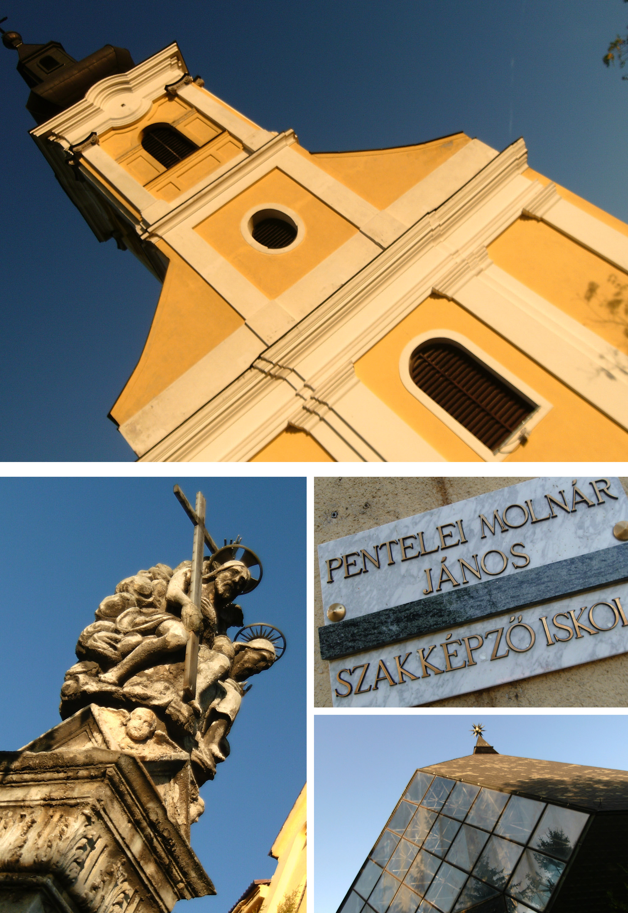 Dunaujvaros, Hungary